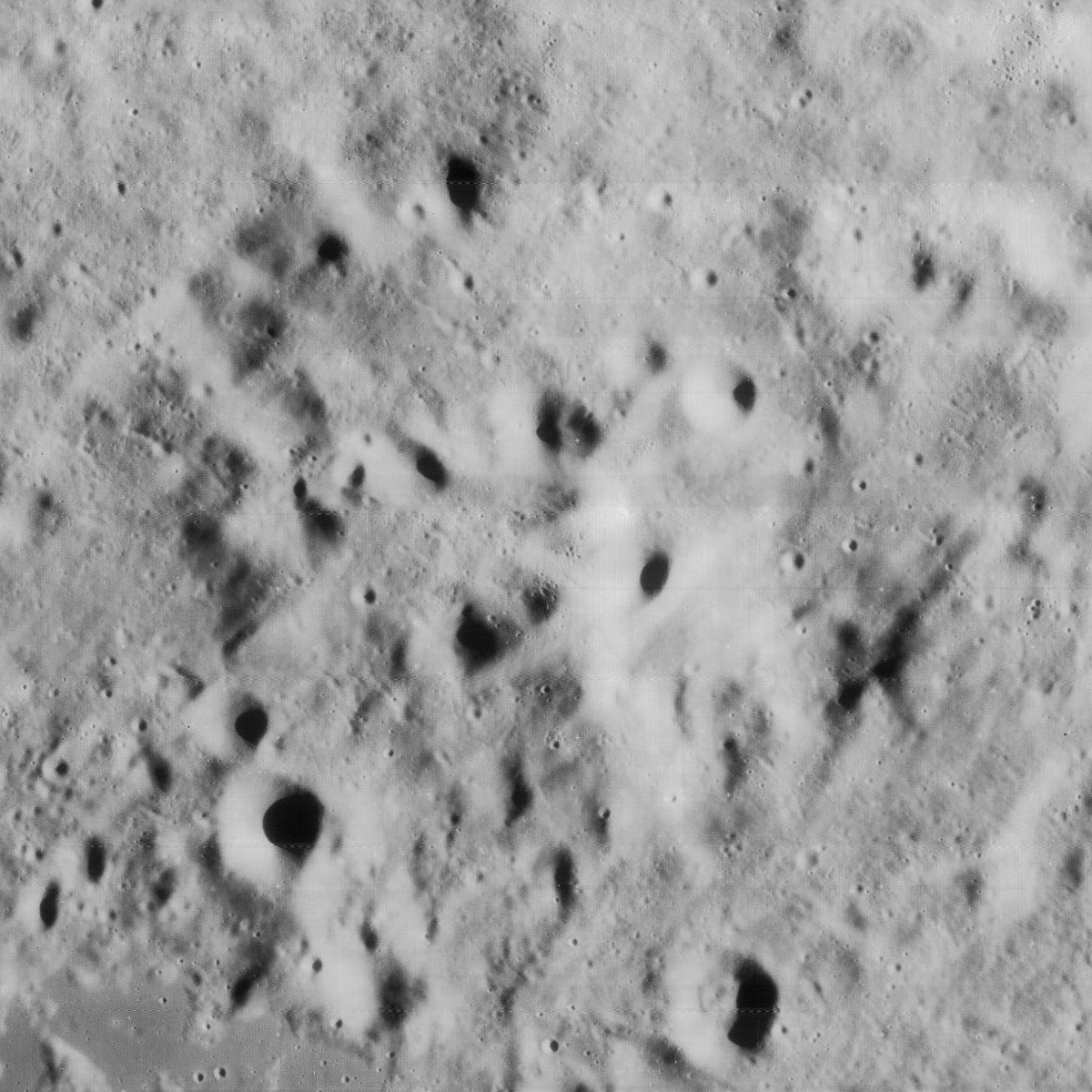 Louville, on the moon. The crater is highly eroded and not obvious, but it fills the frame.